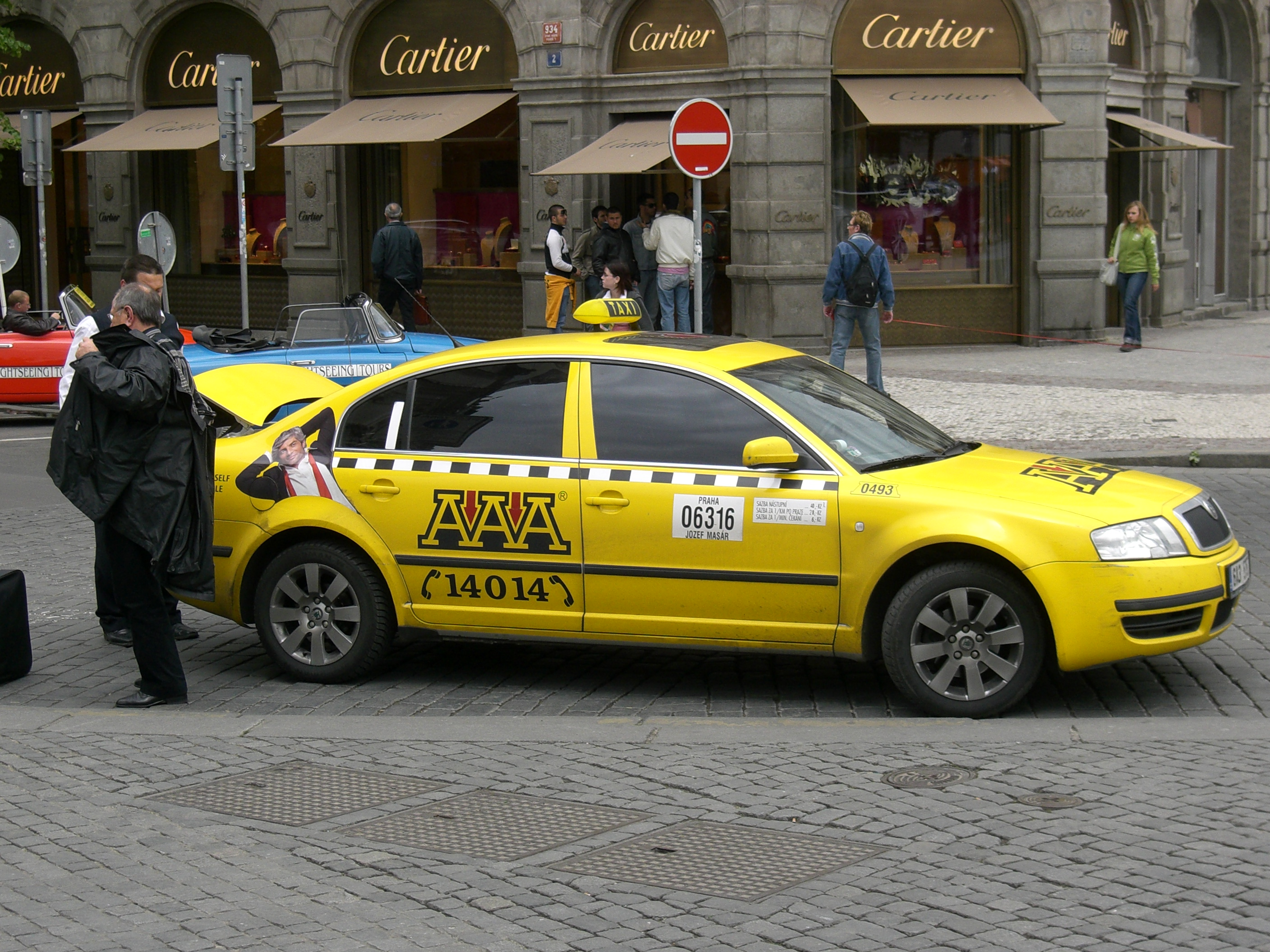 Prague's taxi on Old Town Square in Prague, Czech Republic.